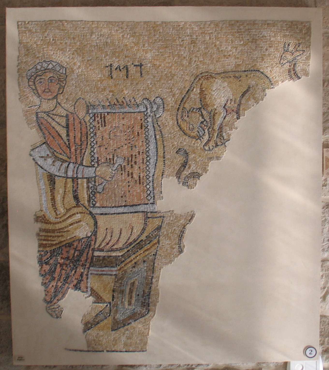 Good Samaritan Museum.